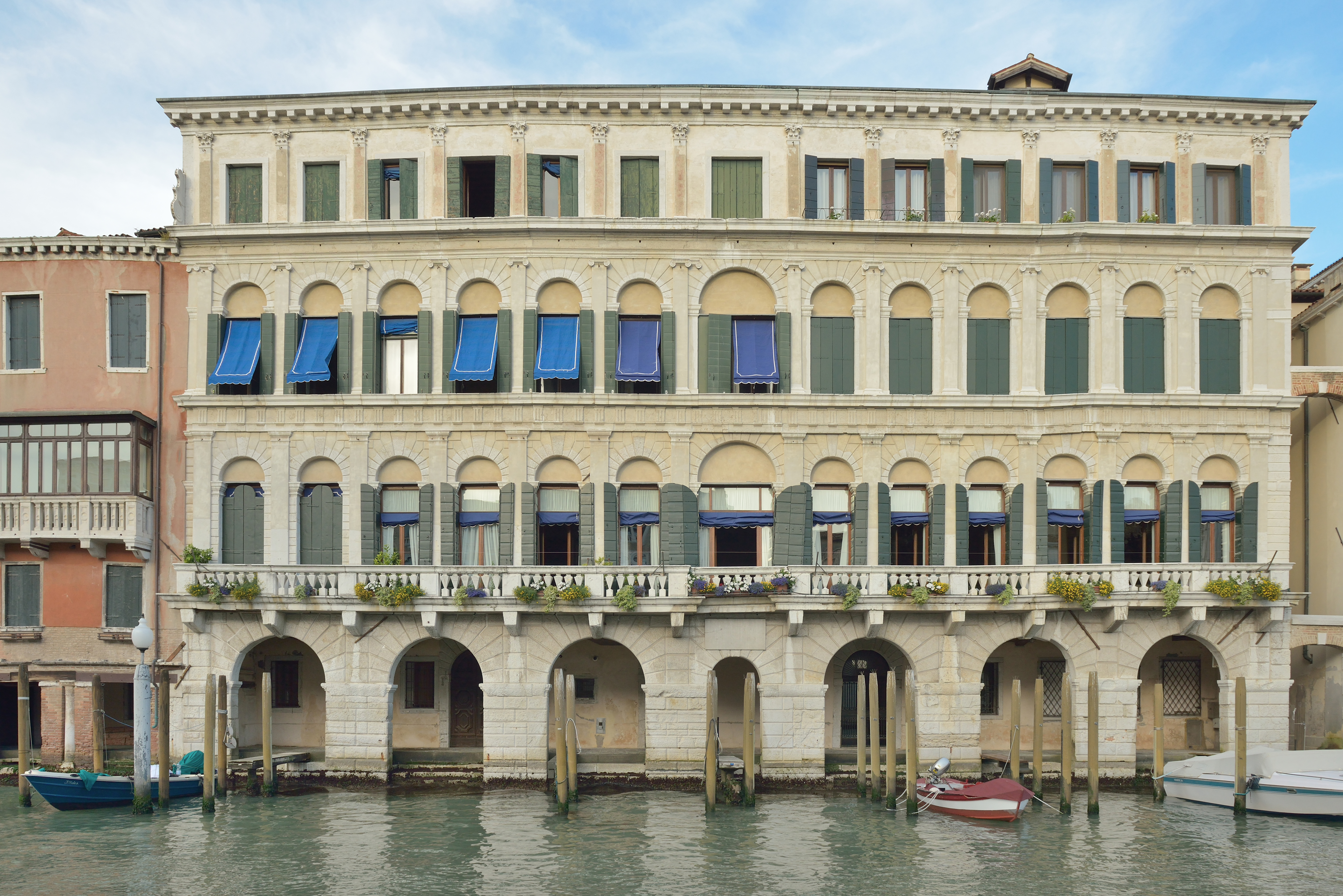 Palazzo Moro Linin Venice. Facade on Grand Canal.